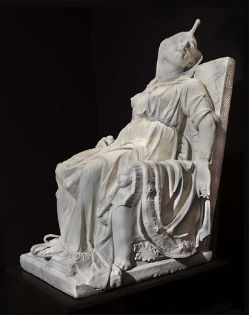 "Cleopatra (69 - 30 BCE), the legendary queen of Egypt from 51 to 30 BCE, is often best known for her dramatic suicide, allegedly from the fatal bite of a poisonous snake....the piece was first exhibited to great acclaim at the Centennial Exhibition in Philadelphia in 1876 and critics raved that it was the most impressive American sculpture in the show. Not long after its debut, however, Death of Cleopatra was presumed lost for almost a century—appearing at a Chicago saloon, marking a horse’s grave at a suburban racetrack, and eventually reappearing at a salvage yard in the 1980s."